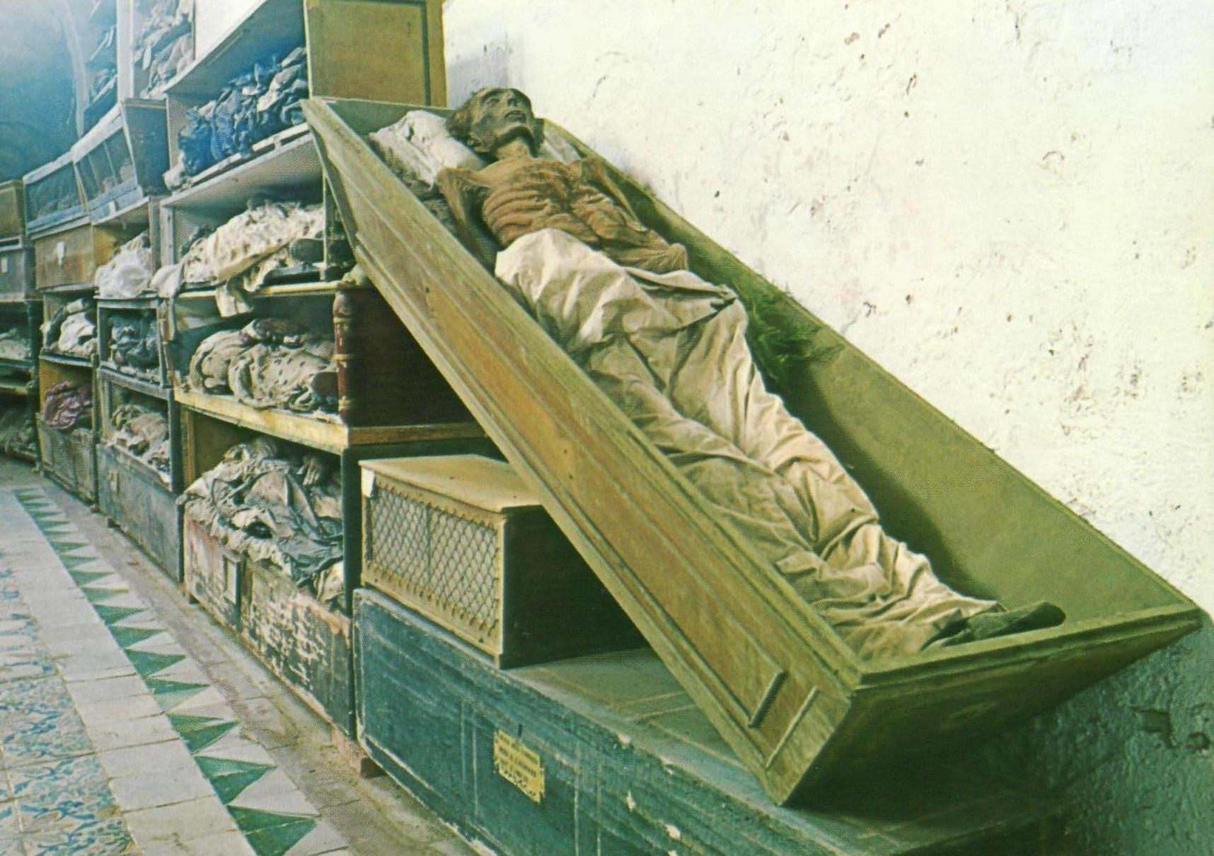 New Corridor in Capuchins' Catacombs